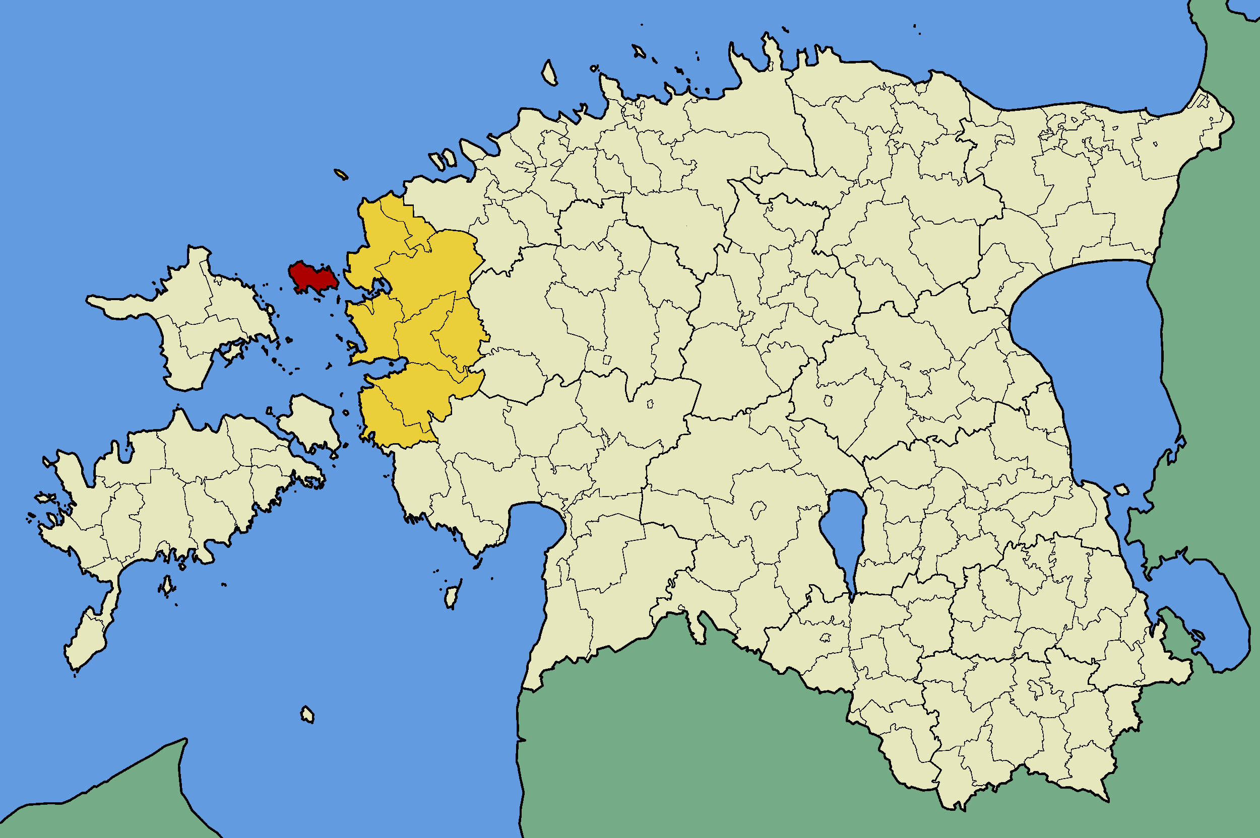 Map of Estonia with borders of municipalities (parishes). Lääne county and Vormsi municipality emphasized.